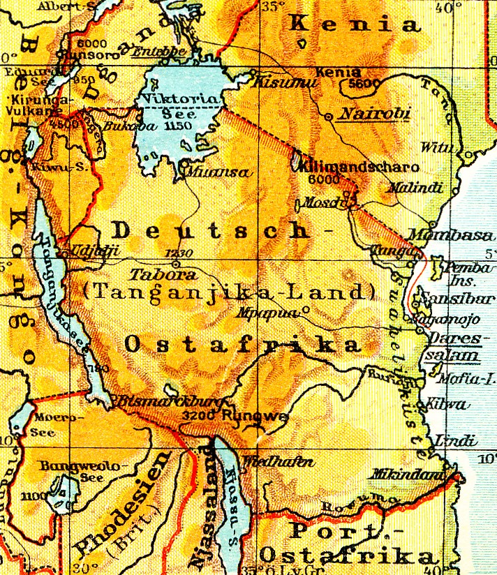 This is a part of an old atlas. It does not necessarily represent the current situation.